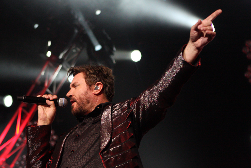 Duran Duran Rock Sydney Entertainment Centre, Australia